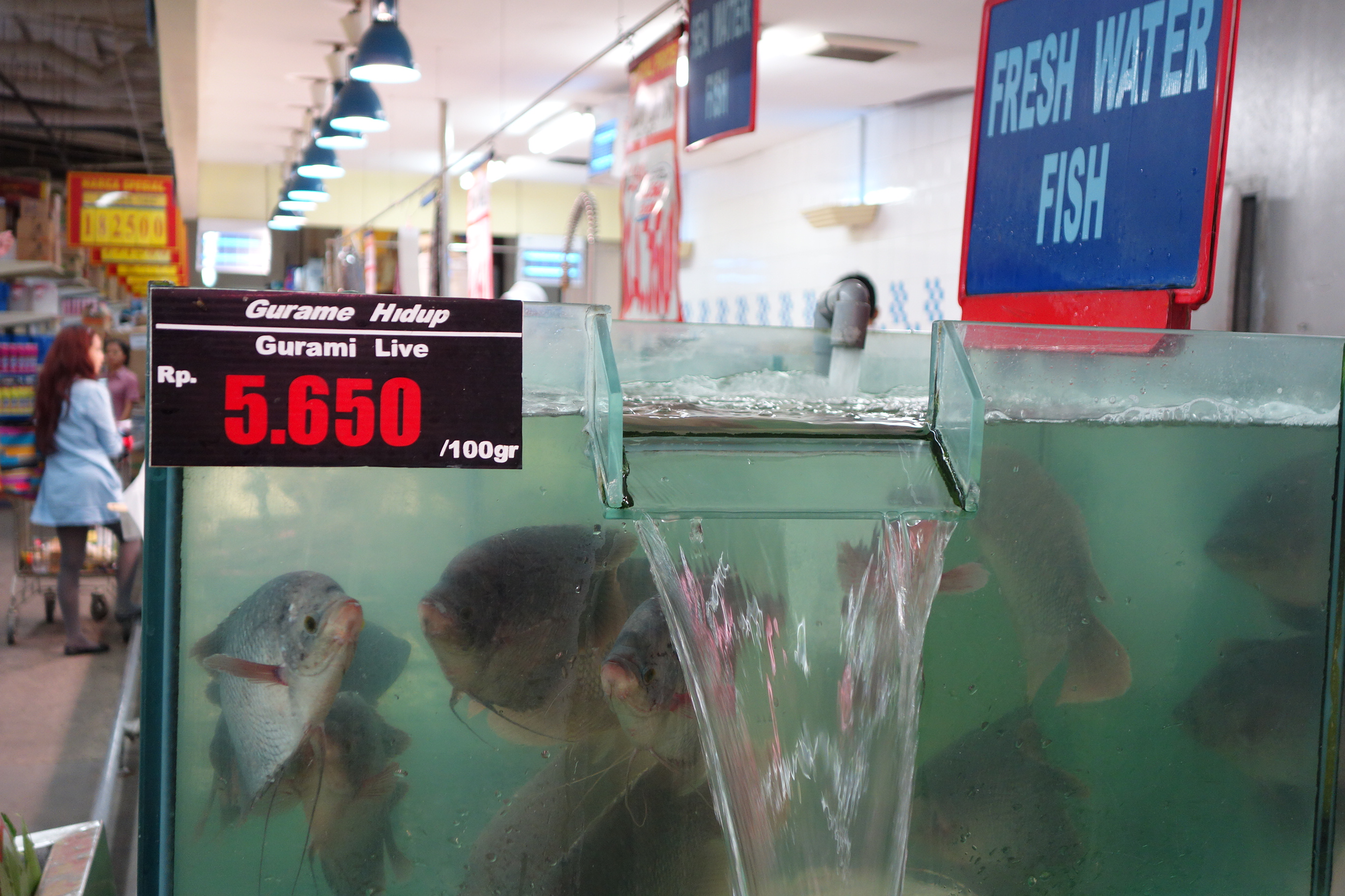 Giant gouramis for sale in a shop in Jakarta